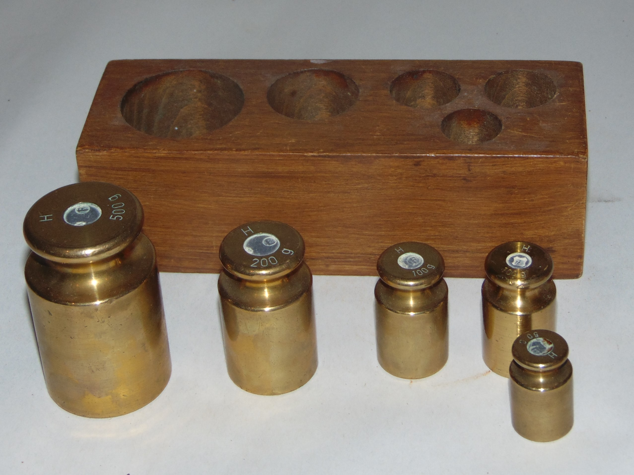 Weights for scales. Photographed in the collection of the National Liberation Museum 1944-1945, the Netherlands, archive number 067.160.